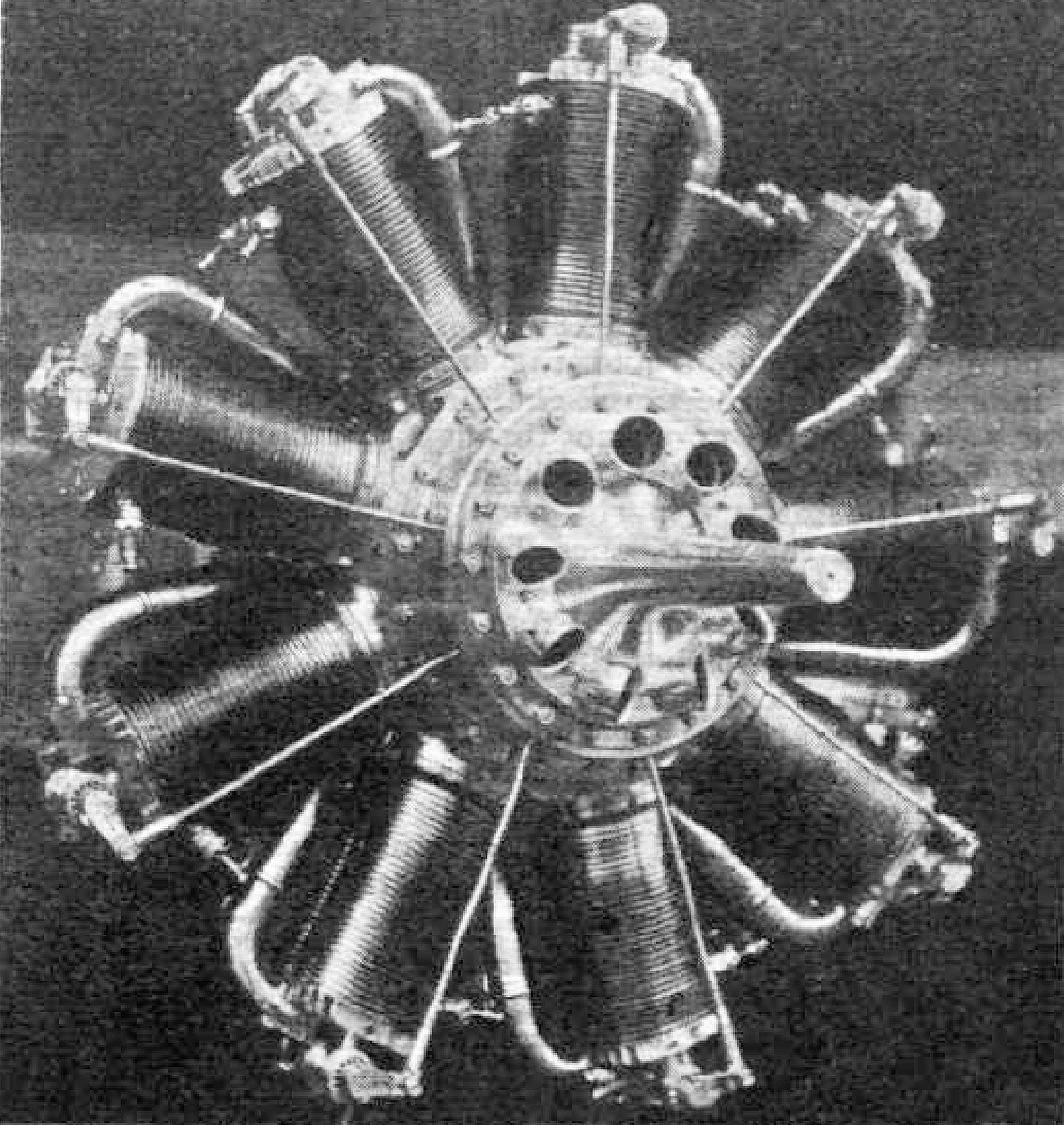 A 180hp le Rhône 9R on display at the 1919 Paris Aero Salon